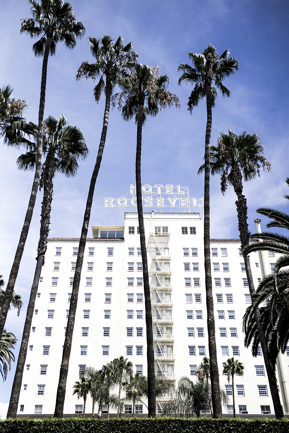 A 2015 photo of the Hollywood Roosevelt Hotel in Los Angeles, California.